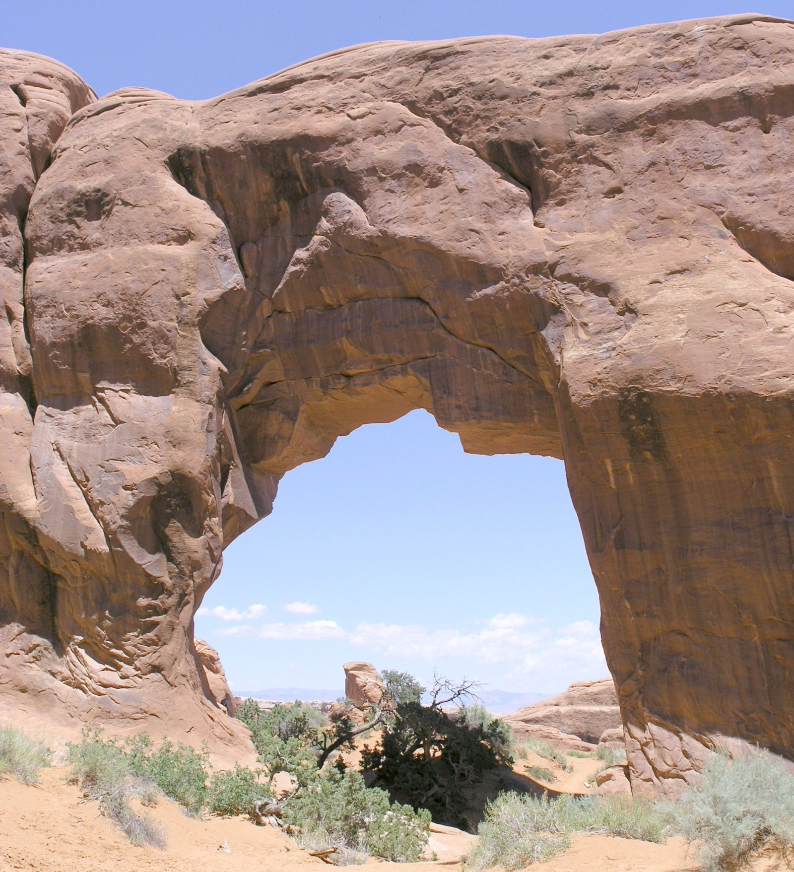 Photo taken by Daniel Mayer in late June 2005.